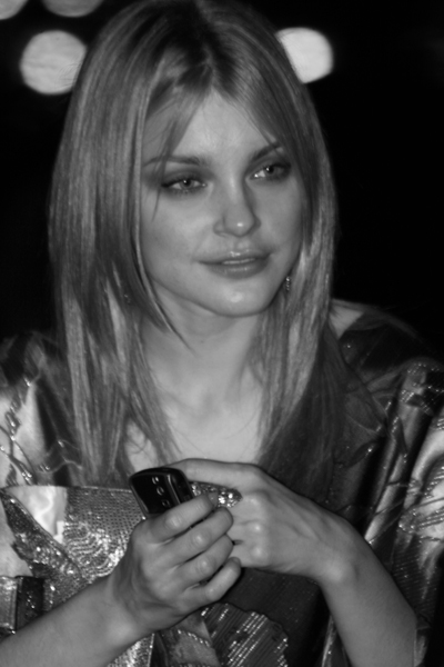 Model Jessica Stam arrives for the 2007 Whitney Museum American Art Gala Studio Party “Shades of Gray” honoring Chuck Close.